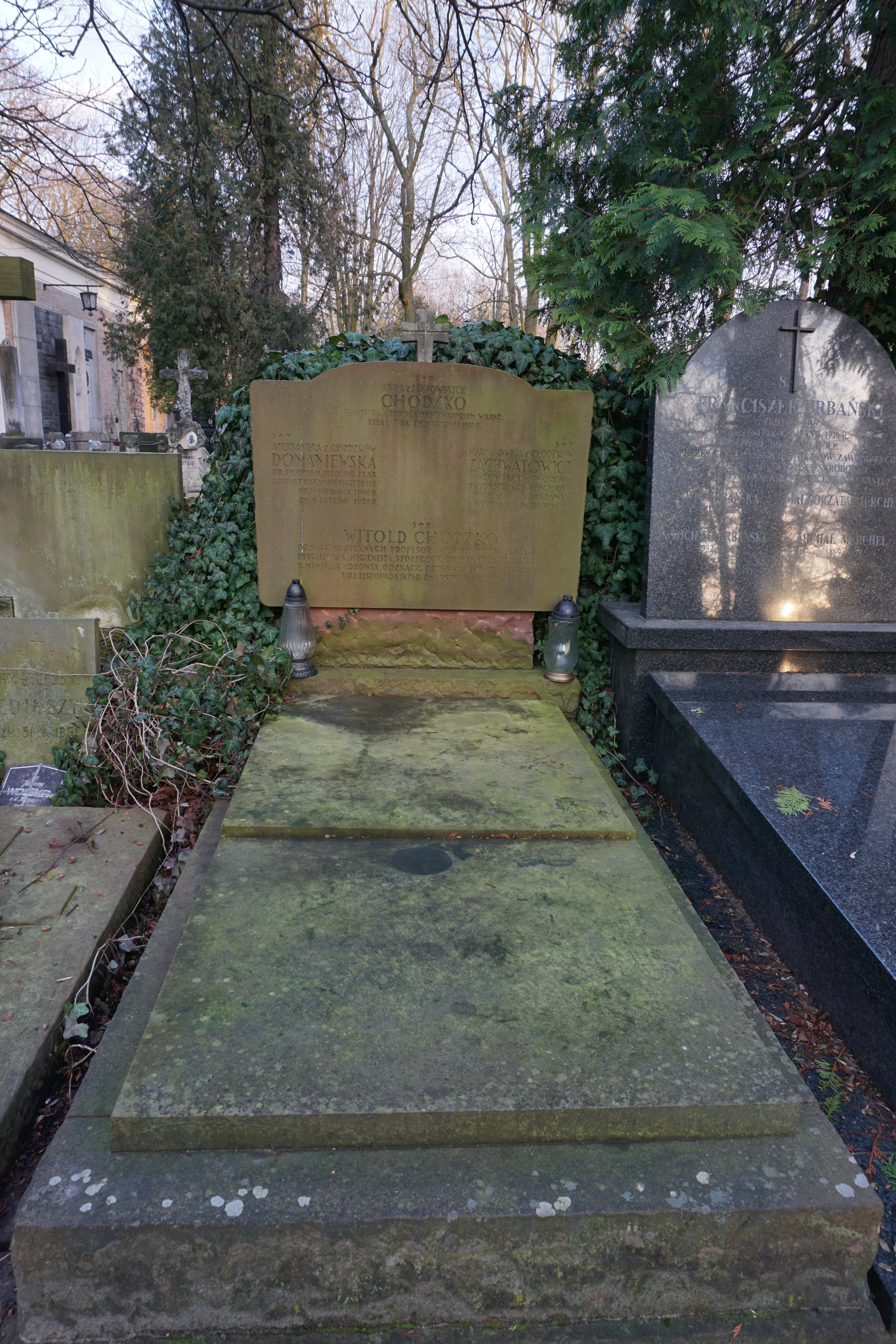 The grave of Witold Chodźko at the Powązki Cemetery (section 170, row 2, grave 6)